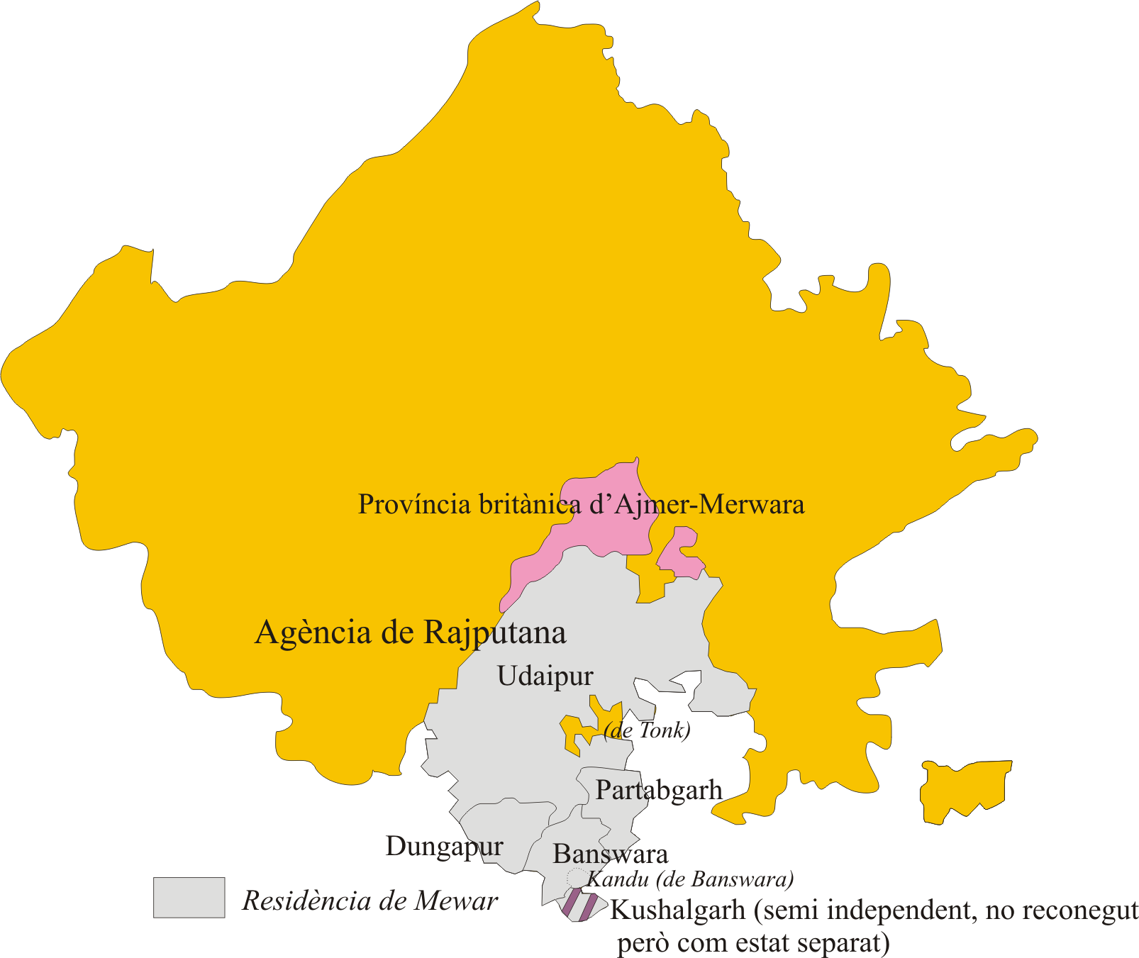 Mewar agency of Rajputana